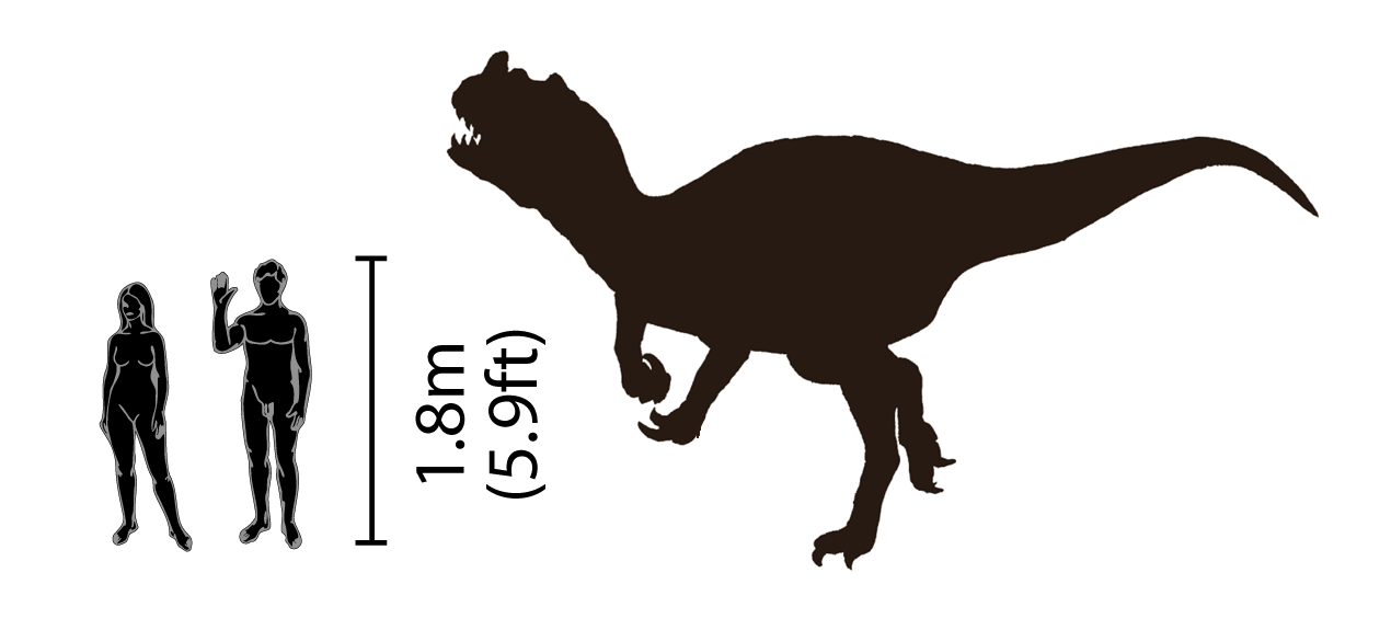 Comparison of body sizes: humans and Ceratosaurus.